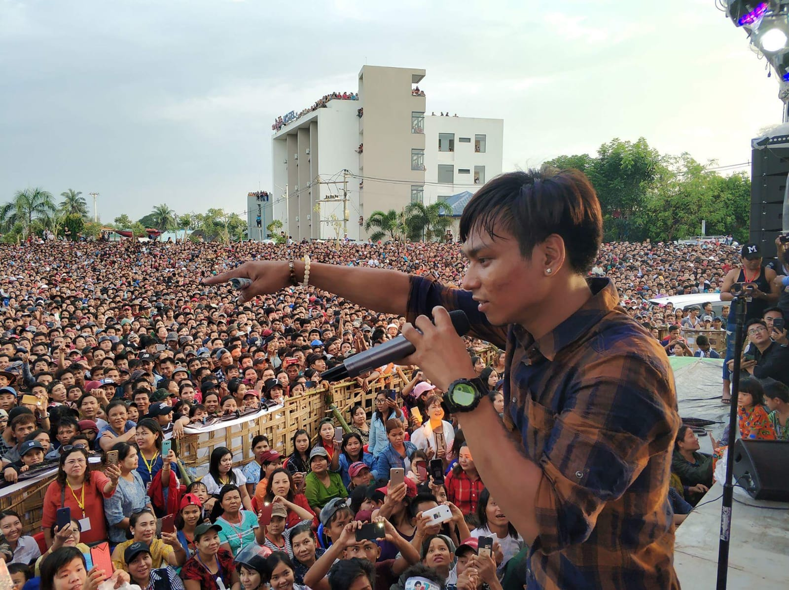 Phyo Myat Aung performing at his thanksgiving concert in his native Hinthada city